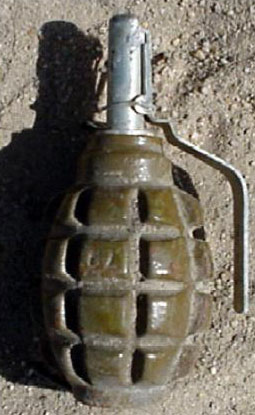 F-1 French Grenade Relic